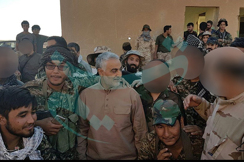 Iranian Maj. Gen. Qasem Soleimani with Afghan Fatemiyoun Division fighters during a offensive in the Syrian Desert.